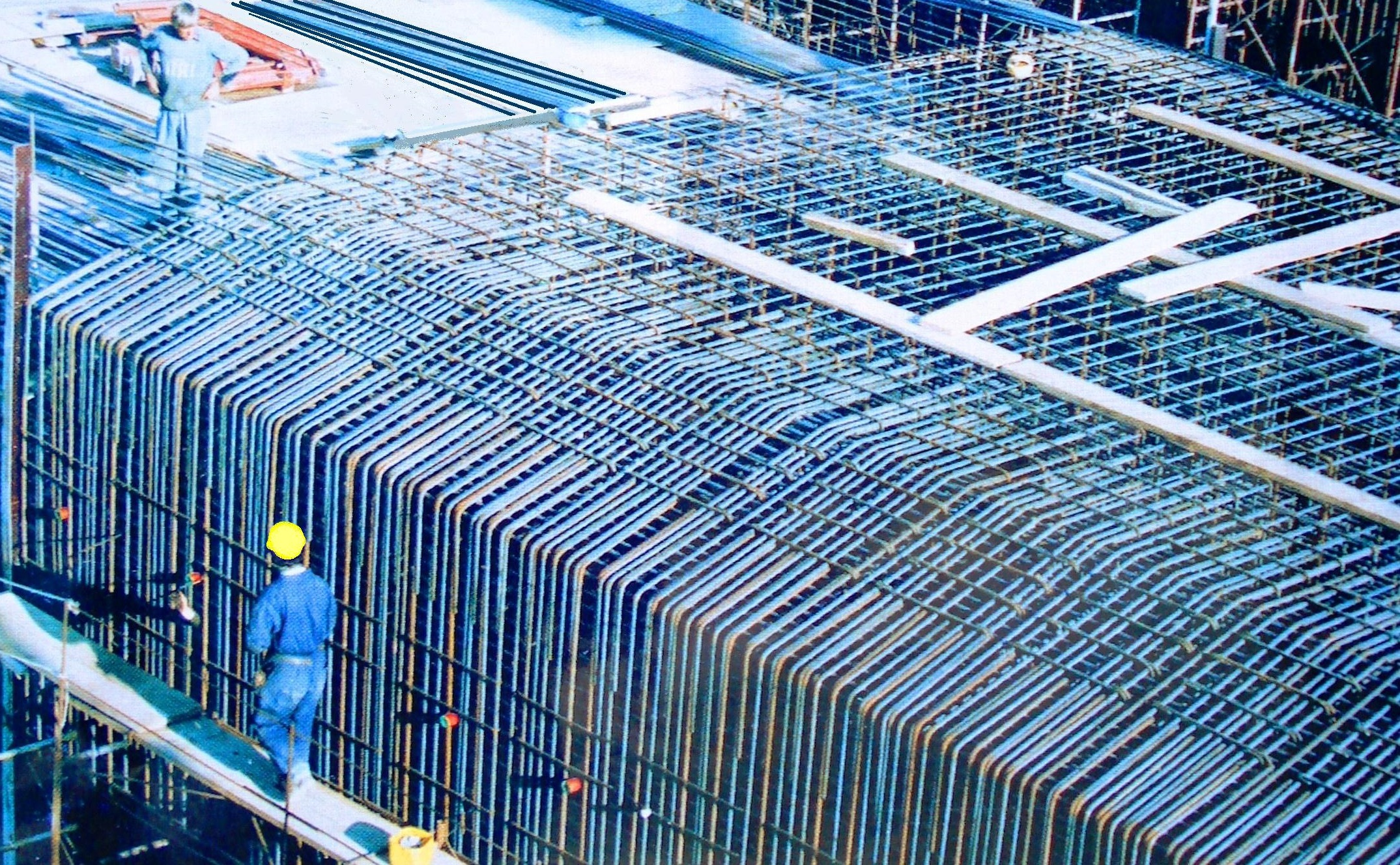 Reinforcement of structural elements in Aktio–Preveza Undersea Tunnel